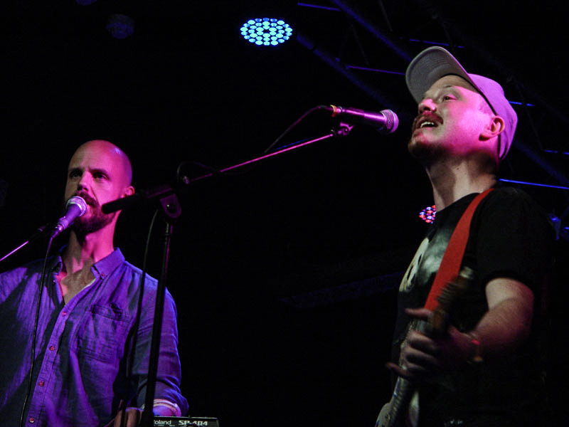 Niklas Antonson and Mike Taagehøj member of Slaraffenland band (2012)